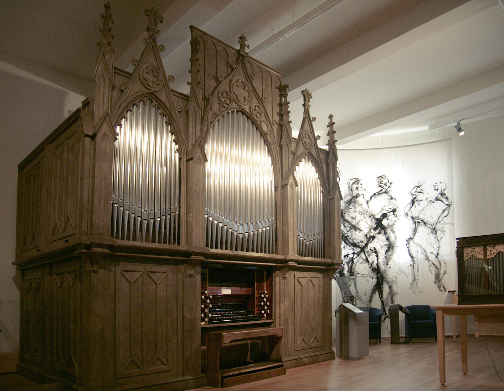 The old organ of the chapel of the Hofburg Imperial Palace in Vienna (built by Carl Friedrich Ferdinand Buckow in 1862), nowadays at the Vienna Technical Museum